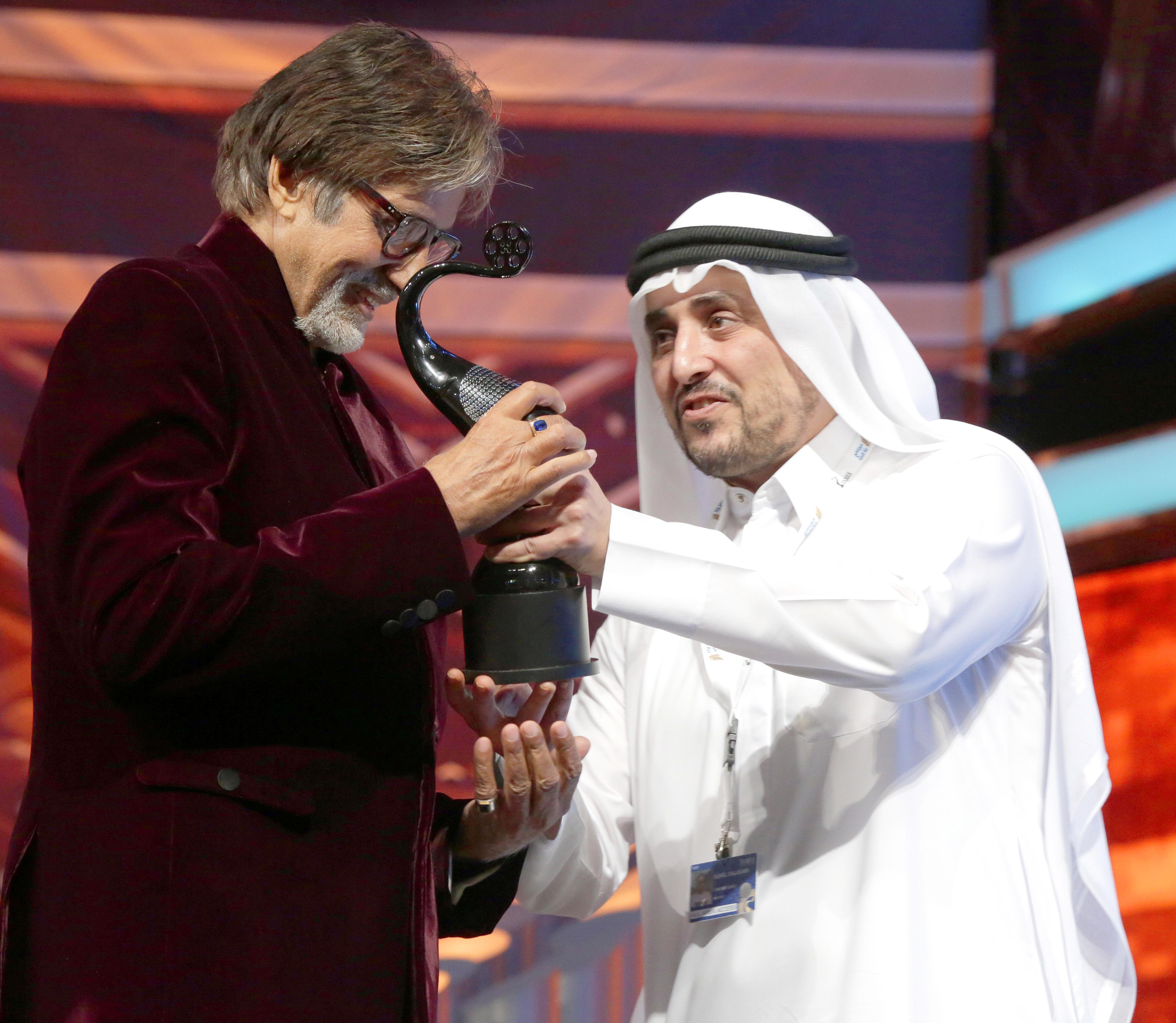 Mr Suhail Abdul Latif Galadari of Galadari Brothers LLC hands over the Best Actor (Critics Choice) Male award to Amitabh Bachchan for the movie 'Piku' at TOIFA